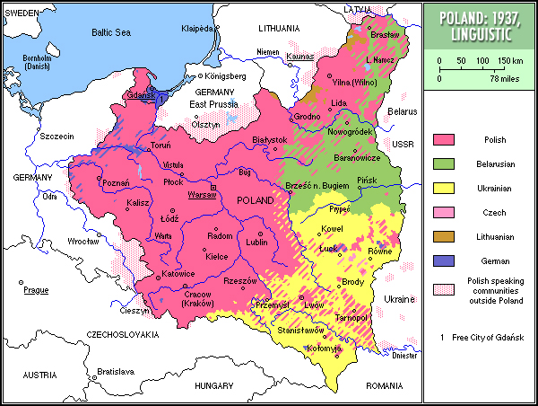 Poland 1937 linguistic